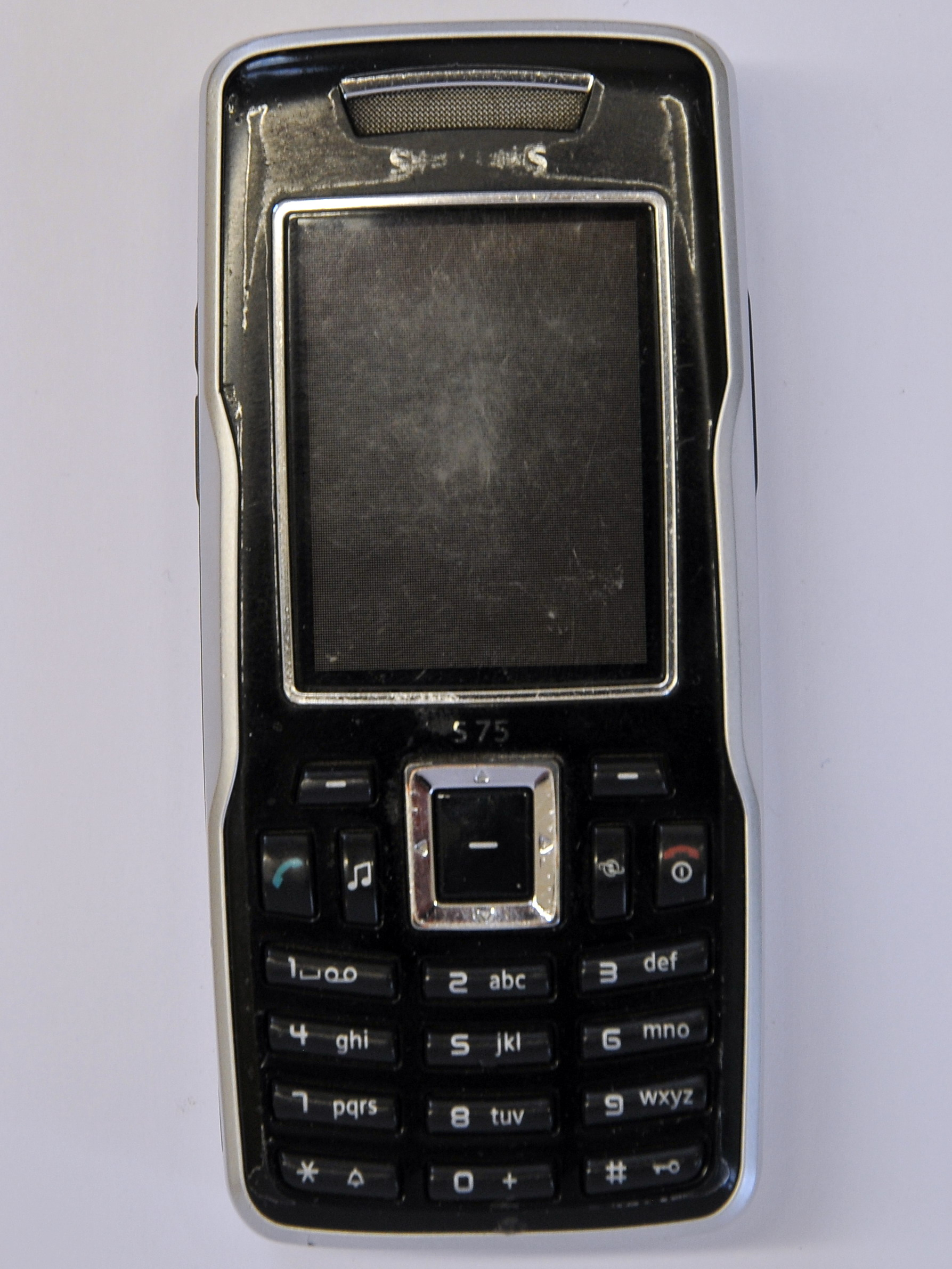 Siemens S75 Mobile Phone